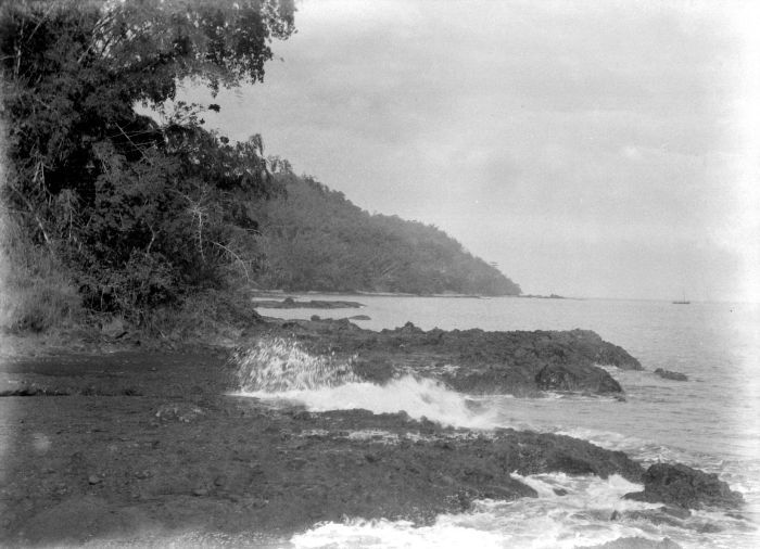 Ciletuh Bay, also called Sand Bay